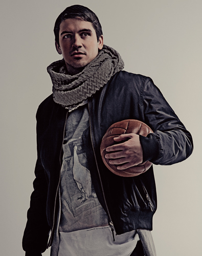 There?s more at Café Magazine!